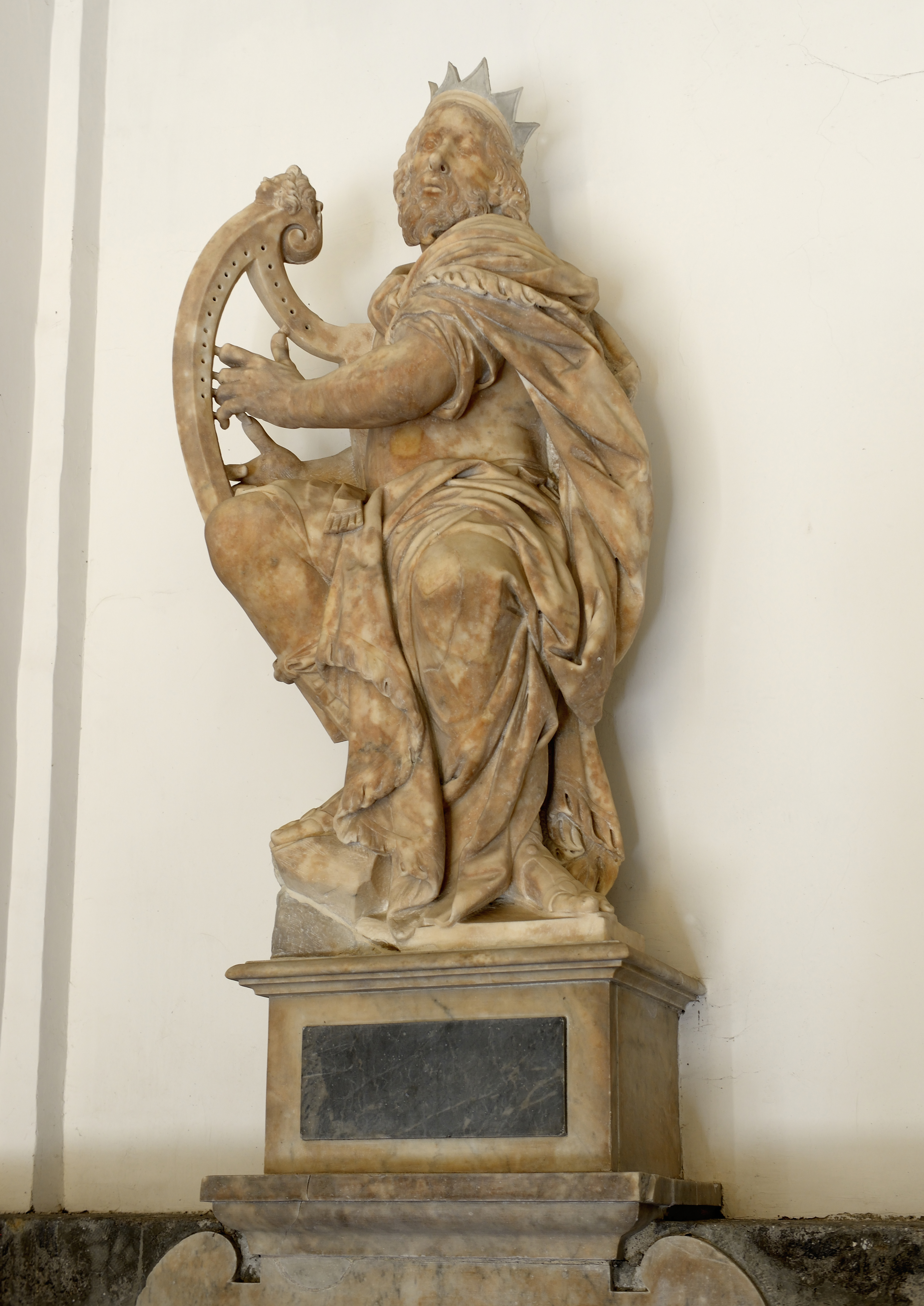 Statue of King David at the Pio Monte della Misericordia church in Naples.